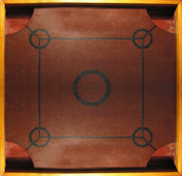 Lee Larcheveque took this picture while visiting my grandma Terry Sonier in Rockville, CT. My dad knew Lee and wanted to show him my grandma's pichenotte board. About 70 years ago, when my grandma was a teenager, her neighbors taught her how to play this game and she convinced her dad to make a pichenotte board. Pichenotte has been played--on this board--in my family ever since.